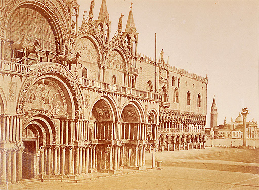 Distributed by Carlo Ponti.